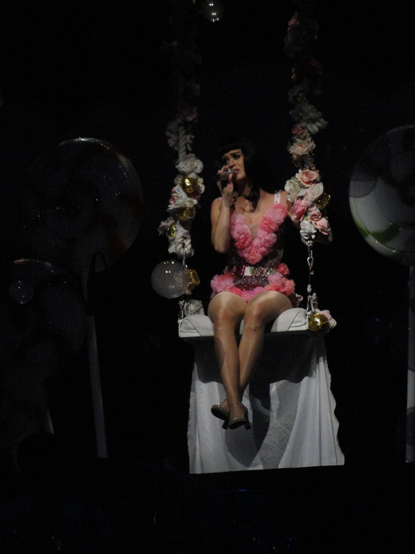 Katy Perry - Seattle, WA 7/20/2011